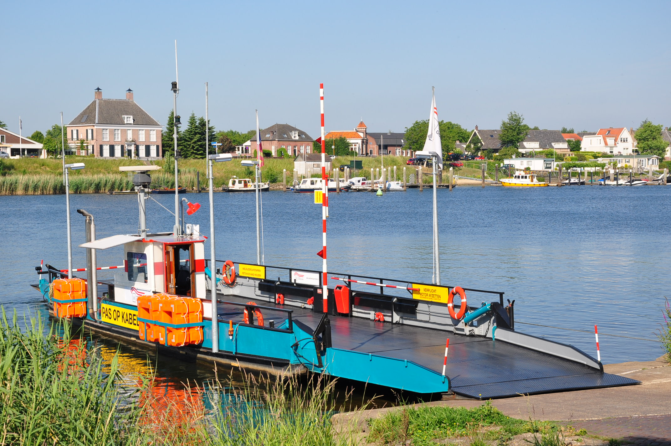 The village of Veen on the river Meuse (Province of North-Brabant, Netherlands).